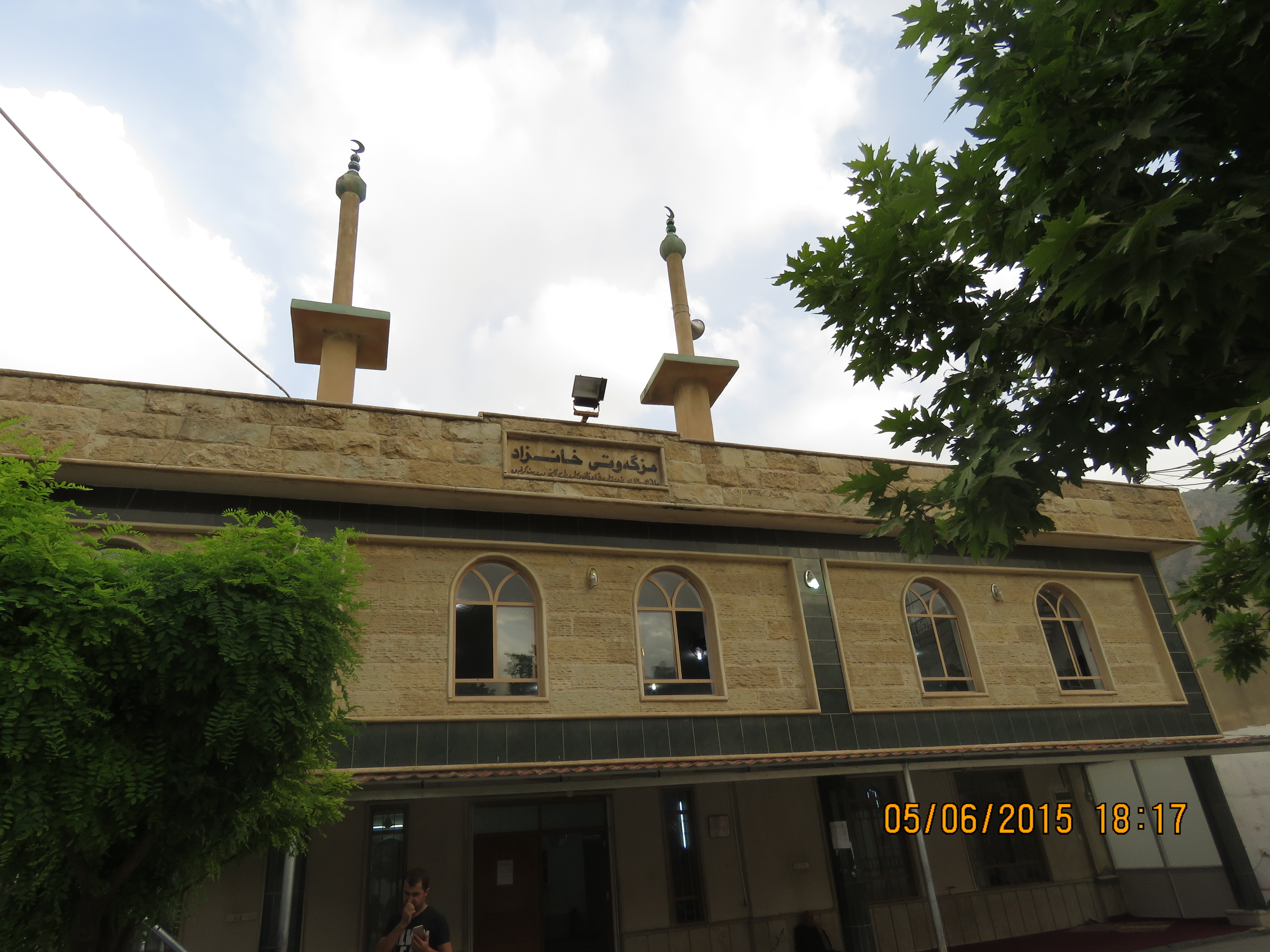 The Khanzaad Mosque in Shaqlawa